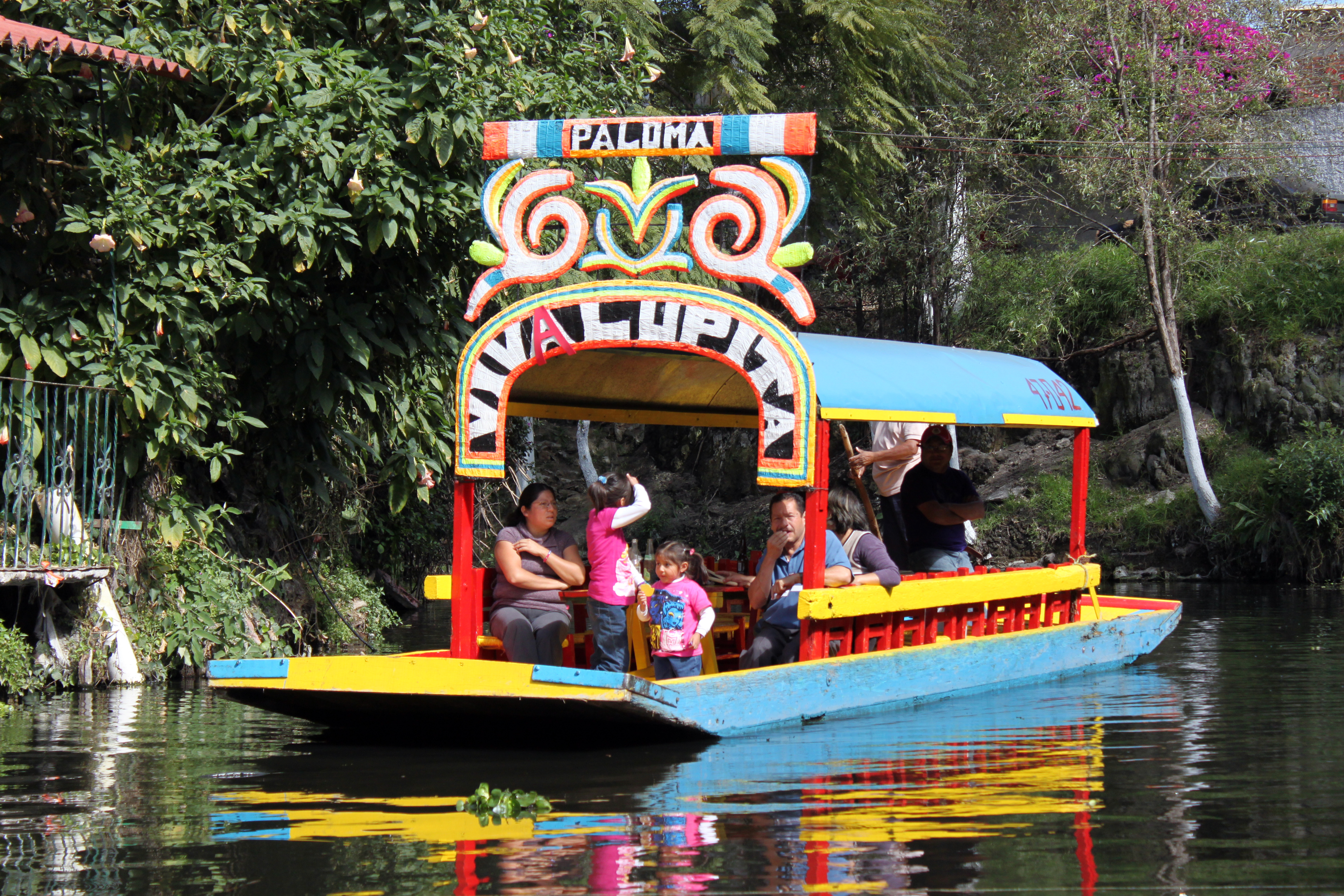 The floating gardens of Xochimilco, Mexico City